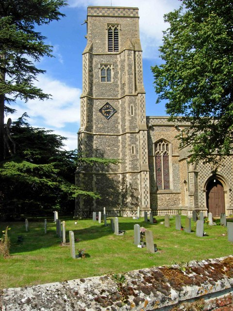 Church of St George in Stowlangtoft, Suffolk, England. A Grade I listed medieval church.